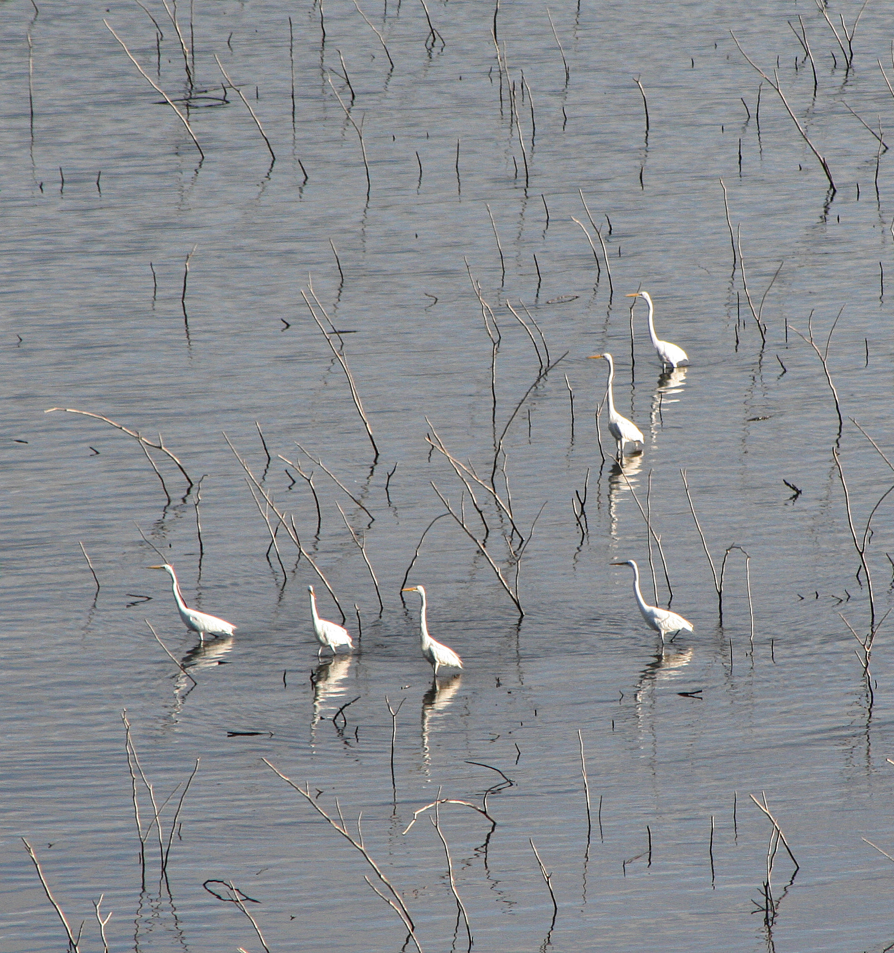 Great Egrets at the Lake Arenal, Costa Rica, from the lodge. Looking down on Lake Arenal in the morning.